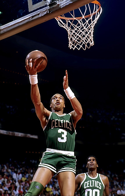 Former American professional basketball player and coach Dennis Johnson